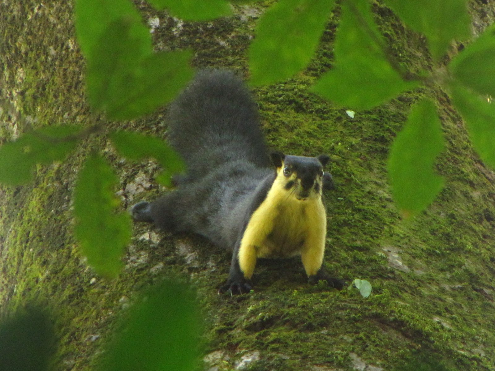 Photo taken at Namdapha Tiger Reserve, Arunachal Pradesh, India